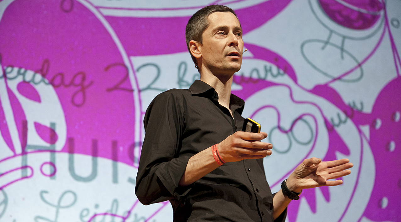 Harmen Liemburg, What Design Can do